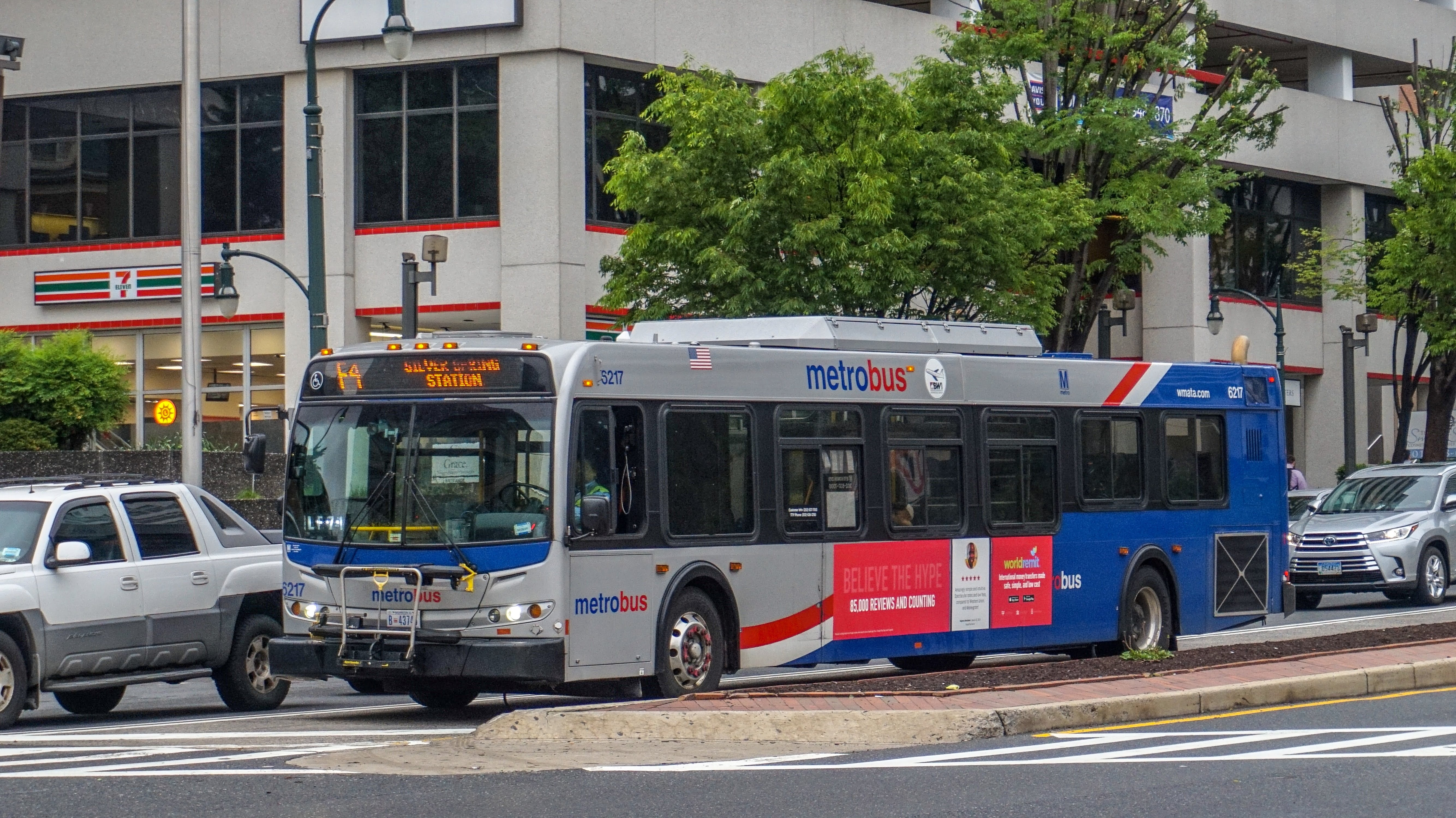 Here is a WMATA 2006 New Flyer D40LFR in blue on Route F4 at Silver Spring, MD